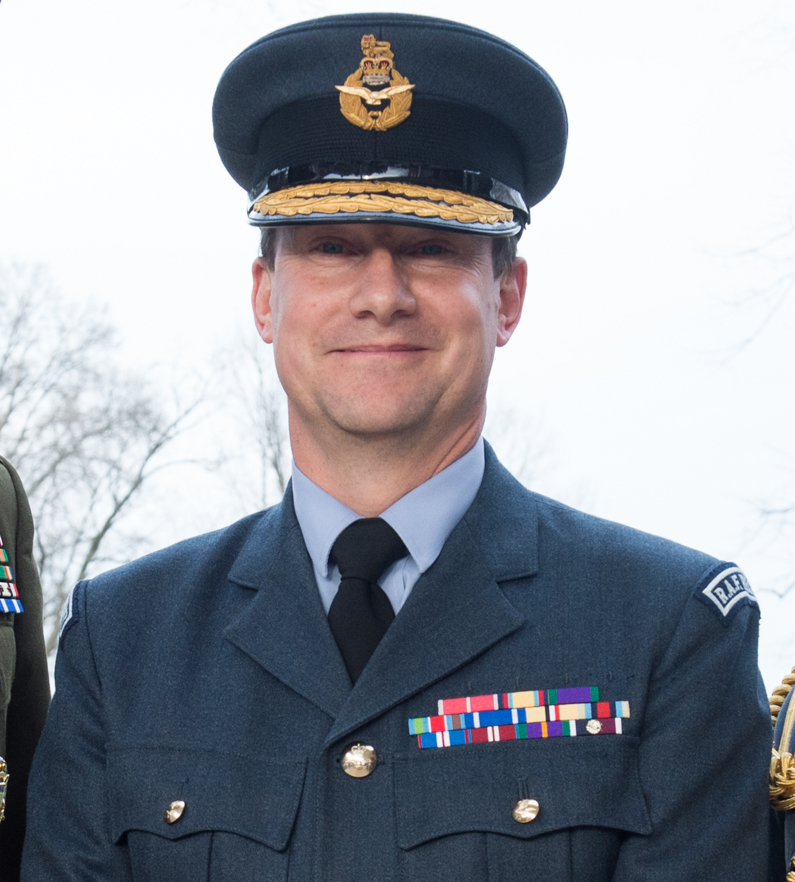 U.S. Marine Corps Gen. Joseph F. Dunford, Jr., chairman of the Joint Chiefs of Staff; Air Commodore Mick Smeath, and Air Chief Marshal Sir Stuart Peach, United Kingdom Chief of Defense, pose for a group photo after an Armed Forces Full Honor Arrival Ceremony at Joint Base Myer-Henderson Hall, April 6, 2018. During the ceremony, the Legion of Merit award was presented to Peach for his efforts to bolster key military support for the Defeat-ISIS Coalition contributing to the significant degradation of ISIS in Iraq and Syria. This is Air Chief Marshal Peach’s last visit before he transitions into a new role as the Chairman of the NATO Military Committee. (DoD Photo by U.S. Army Sgt. James K. McCann)